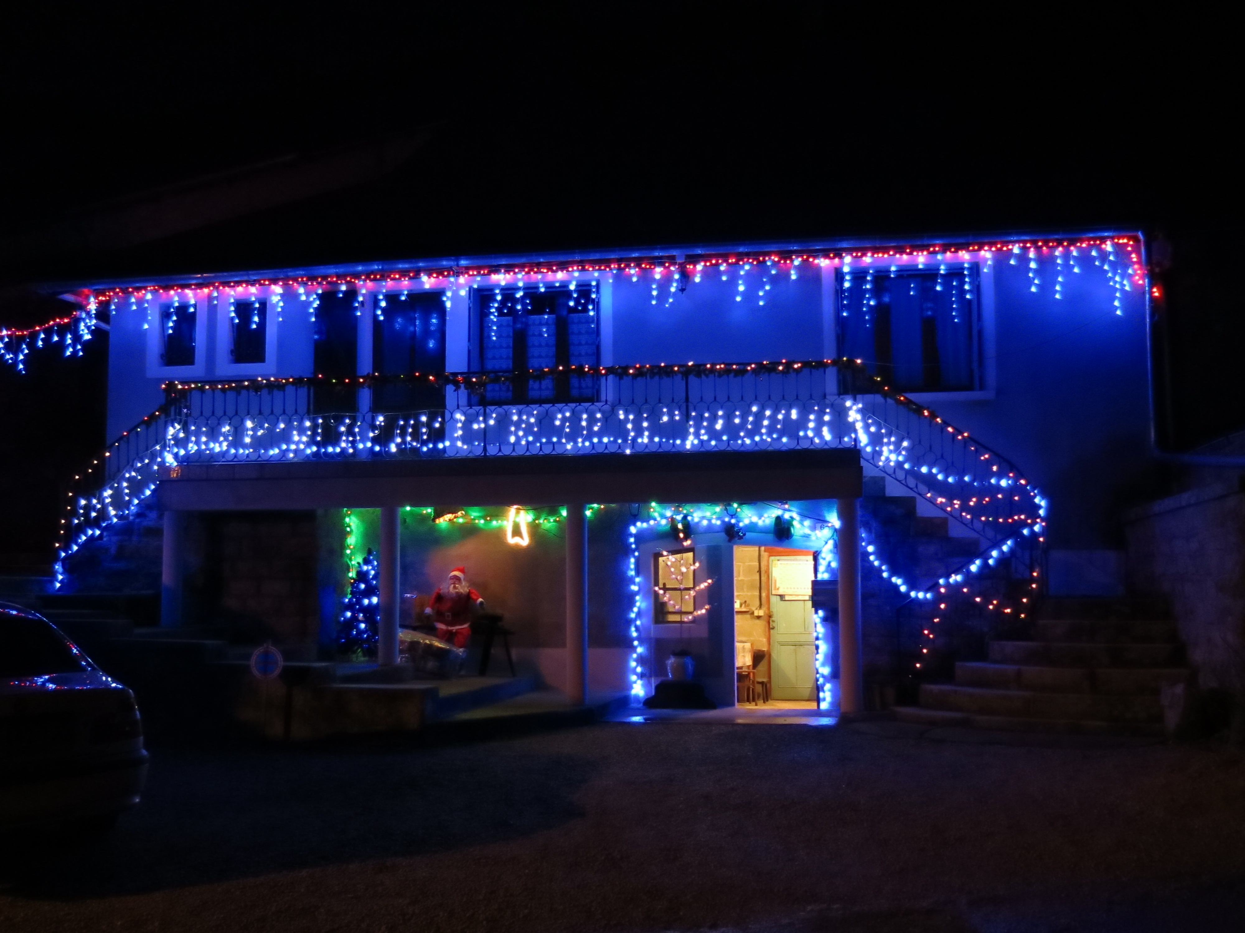 Illuminations 2014 in the village of Vercia (Jura, France).